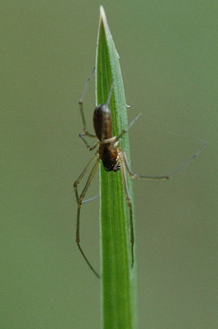 Neriene clathrata from Commanster, Belgian High Ardennes .